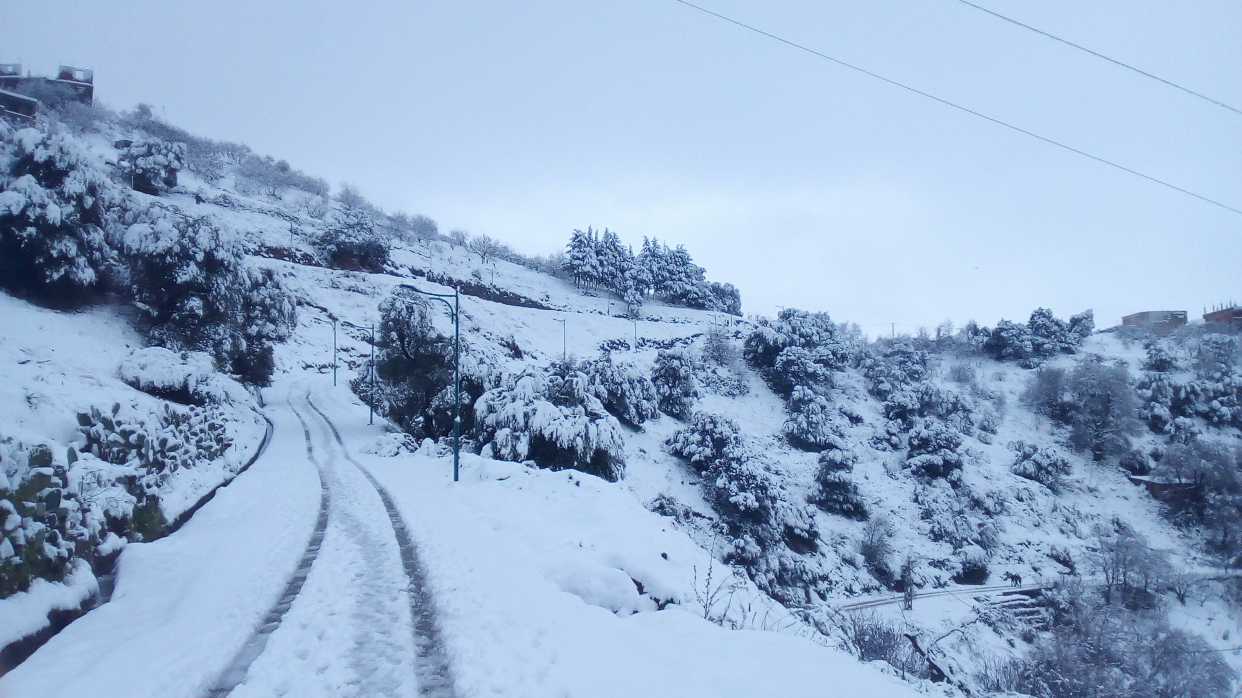 Winter mezdatta